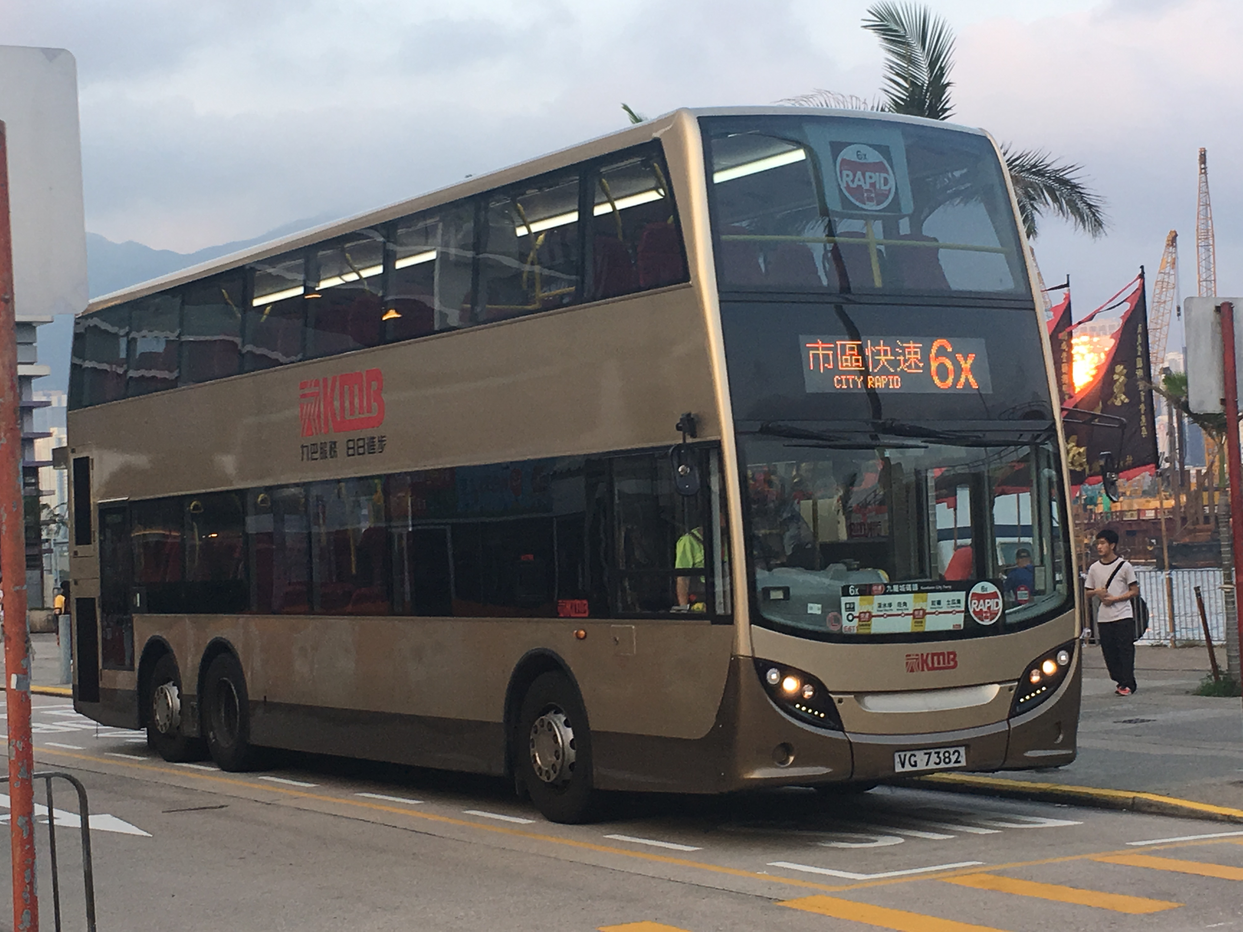 中文（香港）: This photo is taken in Kowloon City Ferry Pier.